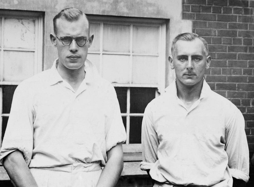 Yorkshire and England cricketers, Bill Bowes (left) and Hedley Verity, at Headingley in Leeds, circa April 1932.